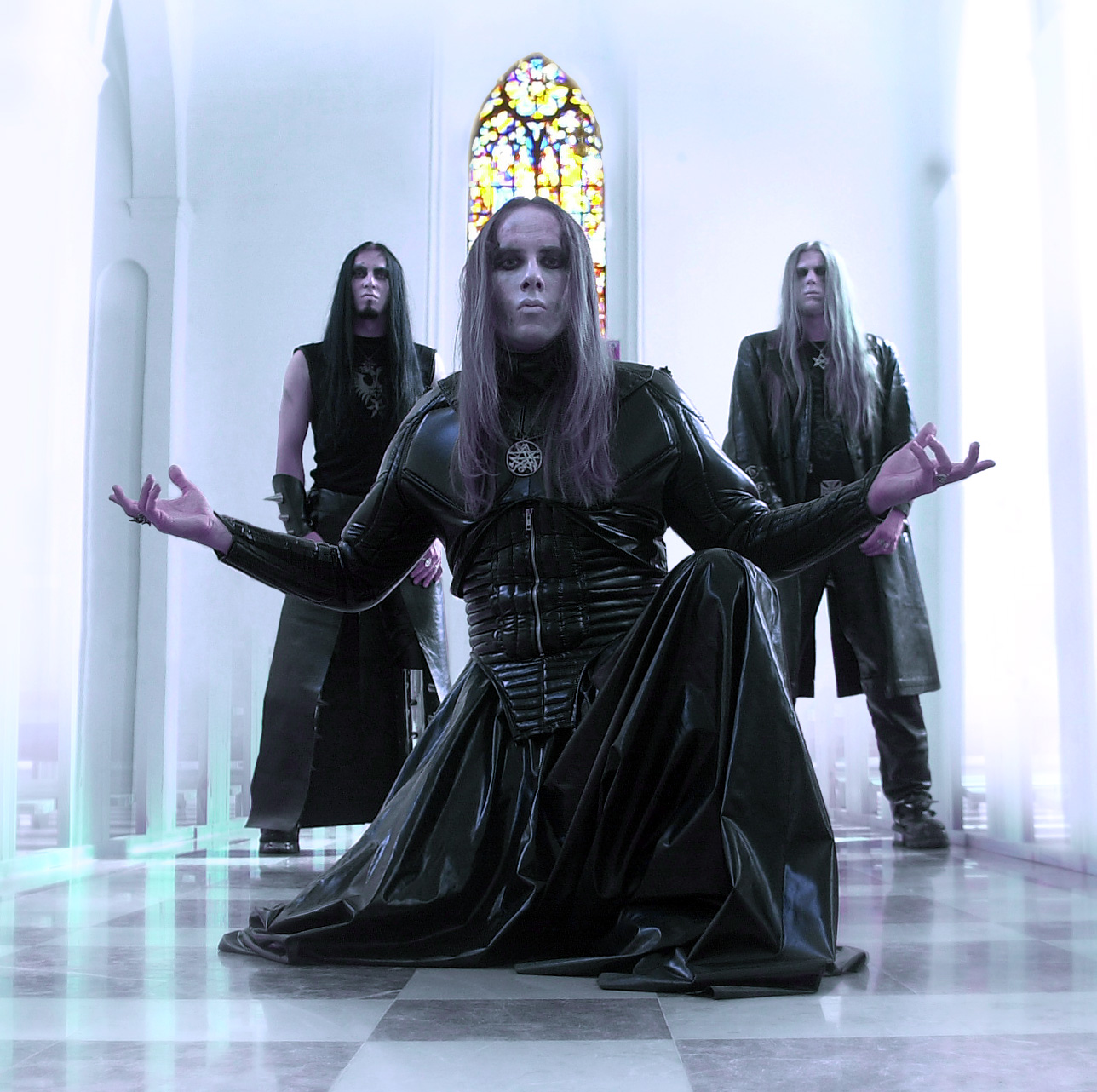 Behemoth, Polish death-metal band.